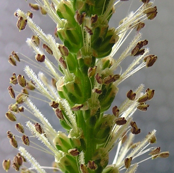 The inflorescence of Plantago major. Moscow region, Russia.